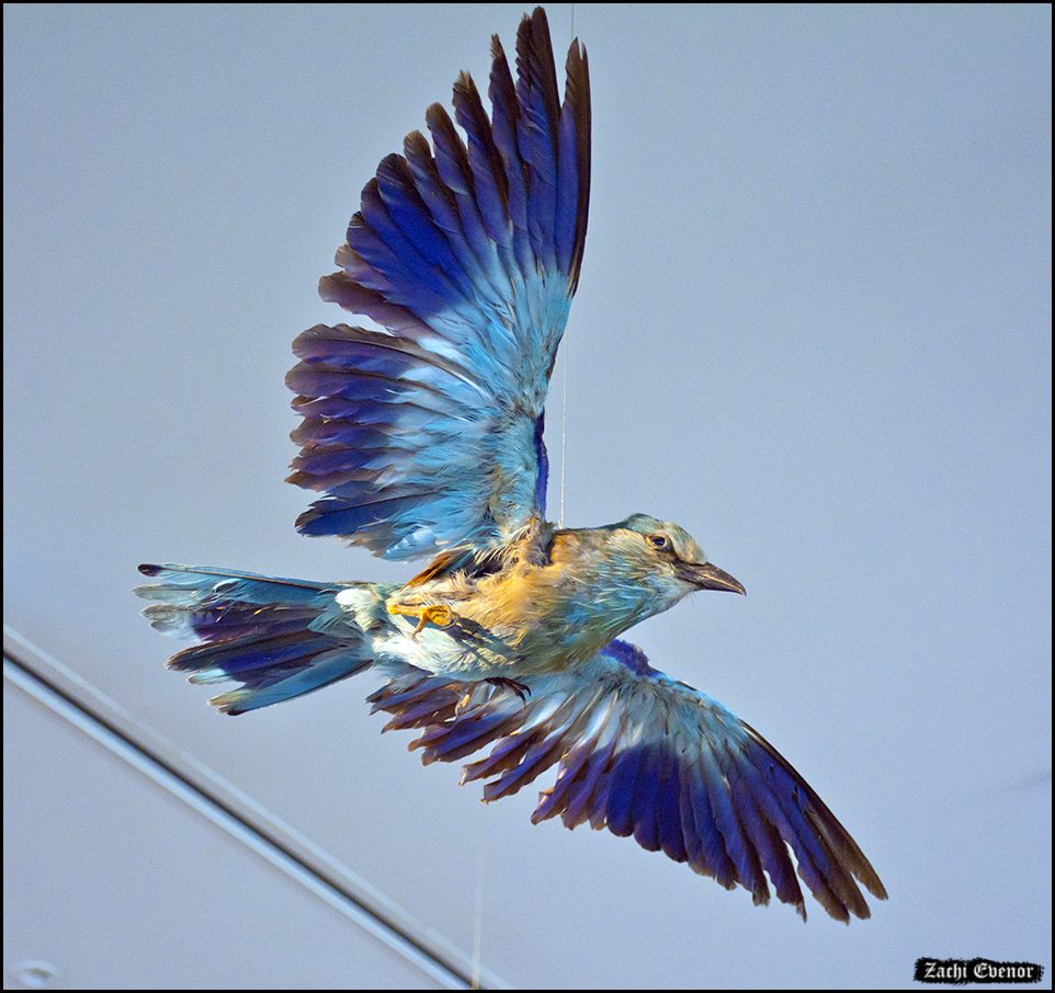 Coracias garrulus (European Roller), Steinhardt Museum of Natural History, Tel Aviv University, Israel